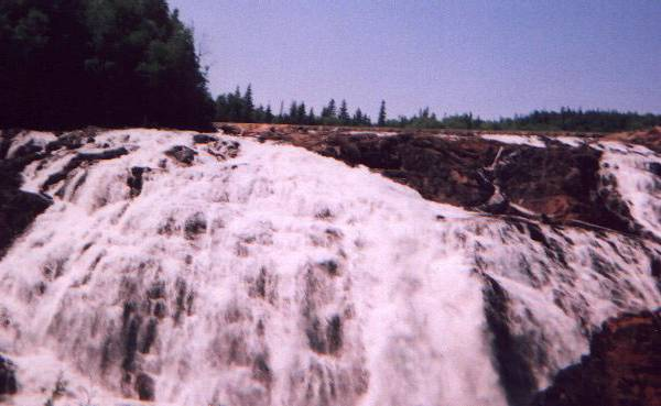 Magpie High Falls, also known as Scenic High Falls, on the Magpie River near Wawa, Ontario My own photo